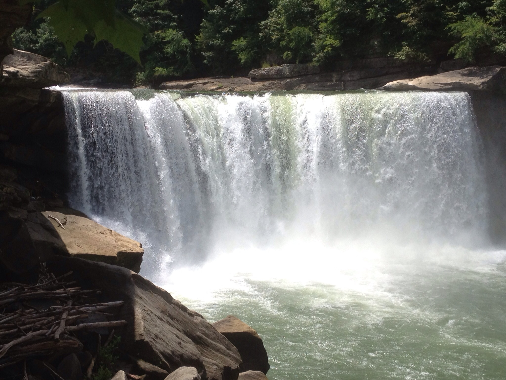 Image of Cumberland falls taken in 2015